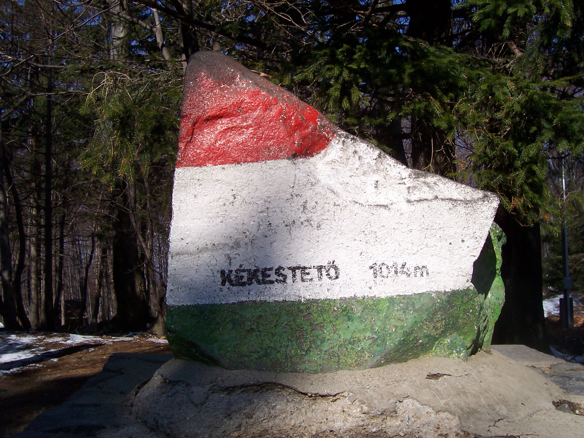 Mount Kékes peak - the highest point of contemporary Hungary